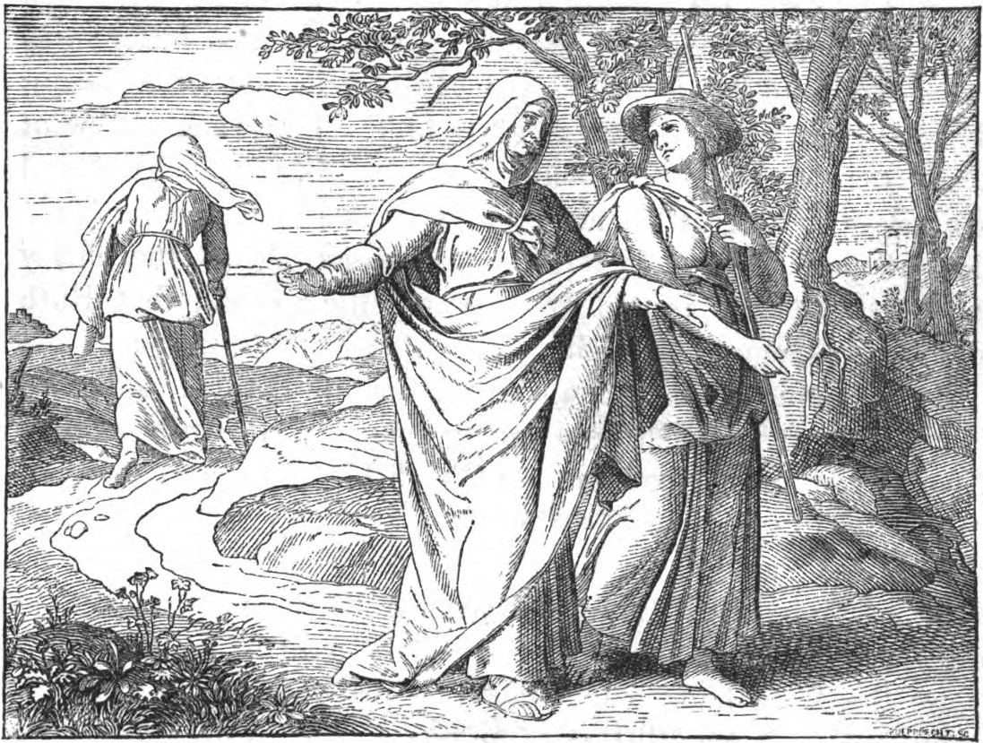 Naomi and her daughters-in-law.